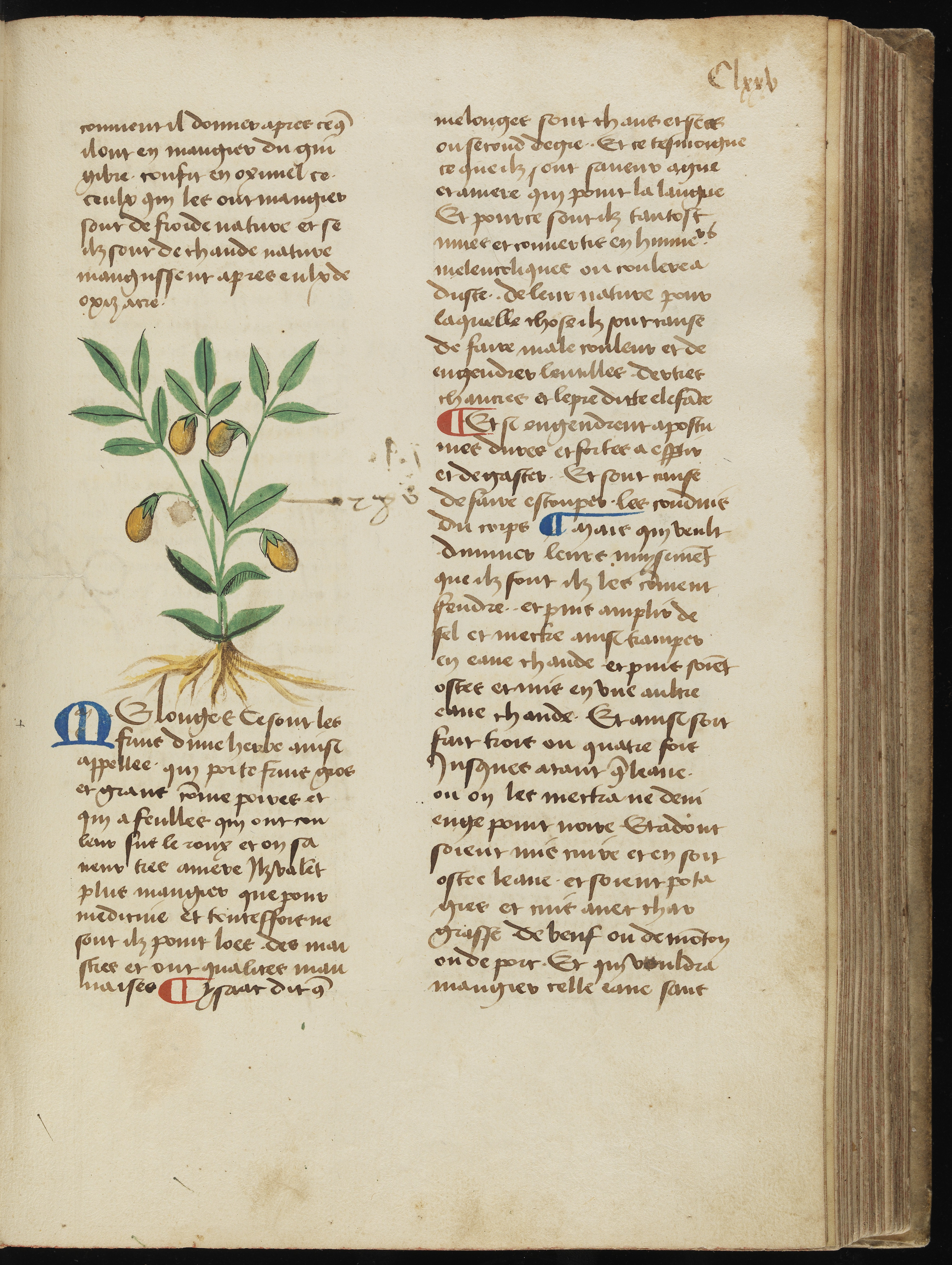 Illustration of an eggplant. MS.626, Platearius, Matthaeus (d. 1161). Folio CLXXV. Medical Photographic Library Keywords: Plants; Plant Preparations; Medicine, Traditional; Cookbooks; Herbal Medicine